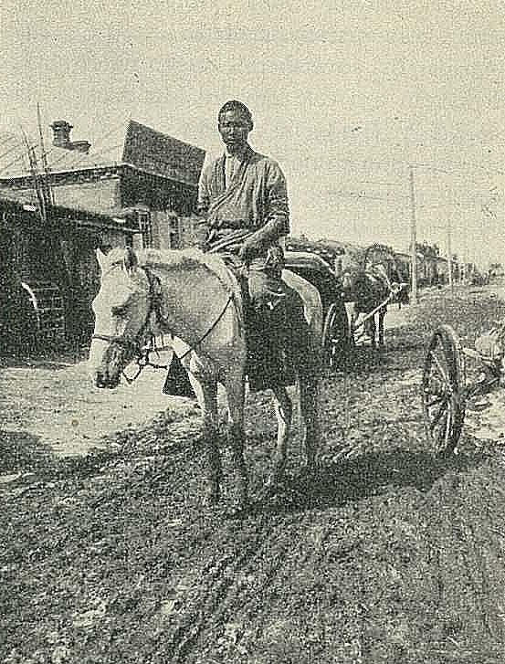 Mongol nomad from western Manchuria.